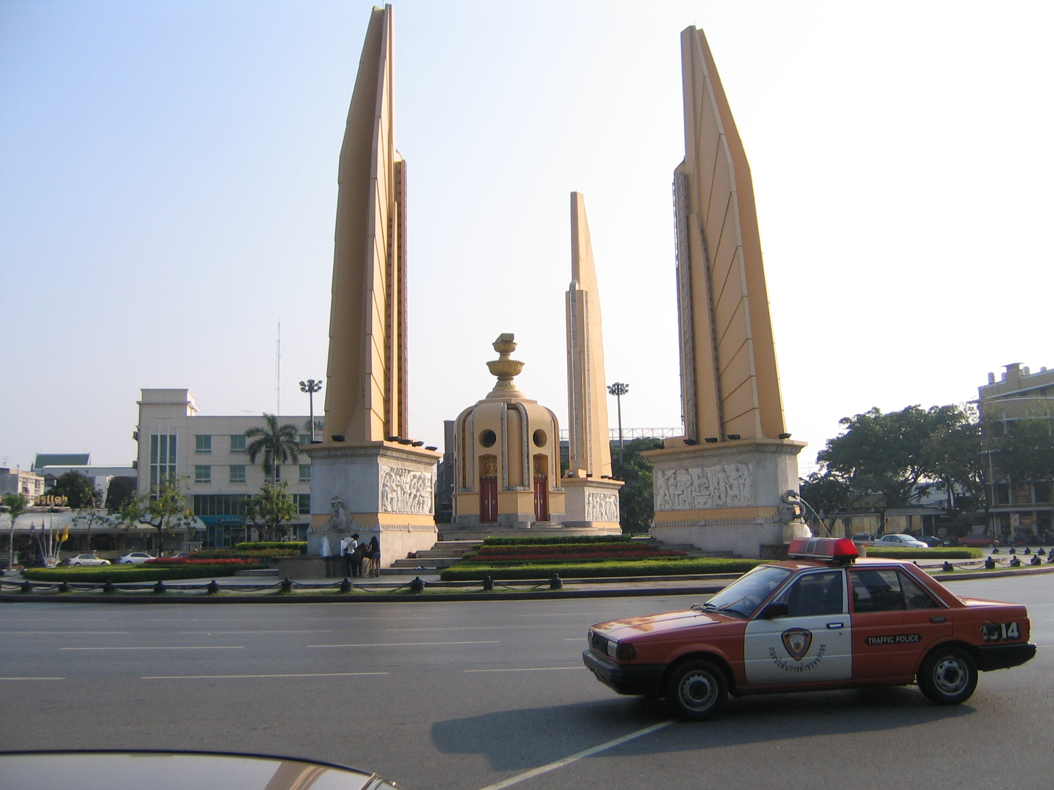 Democracy Monument on Rachadamnoen Klang Boulevard, Bangkok, Thailand.